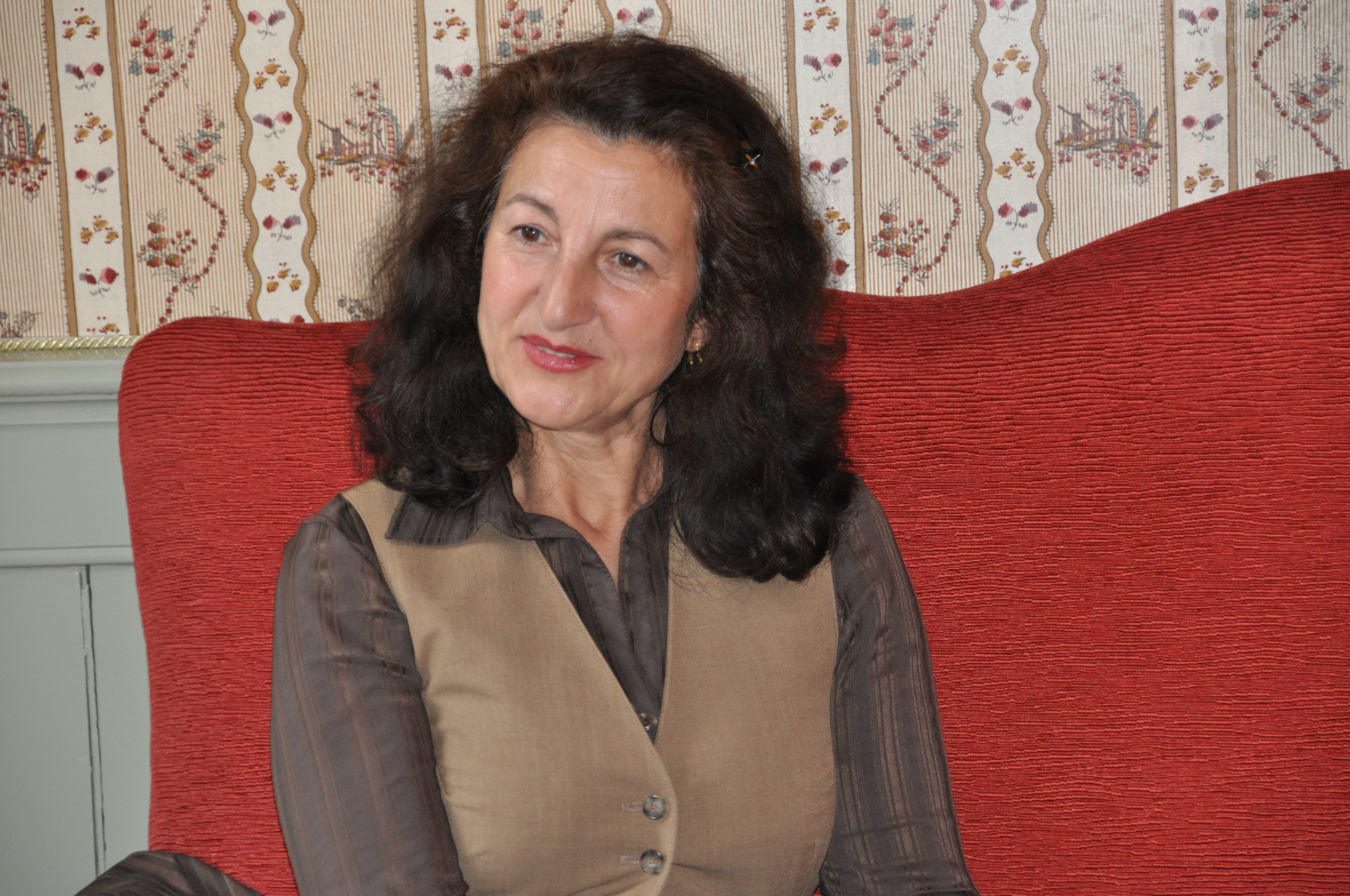 Necla Kelek is a German feminist and social scientist of Turkish descent.